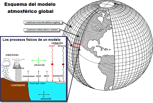 Global atmospheric model (in Spanish)